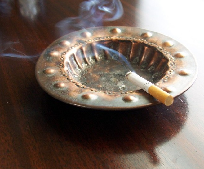 A lit cigarette resting on the edge of an ash tray.